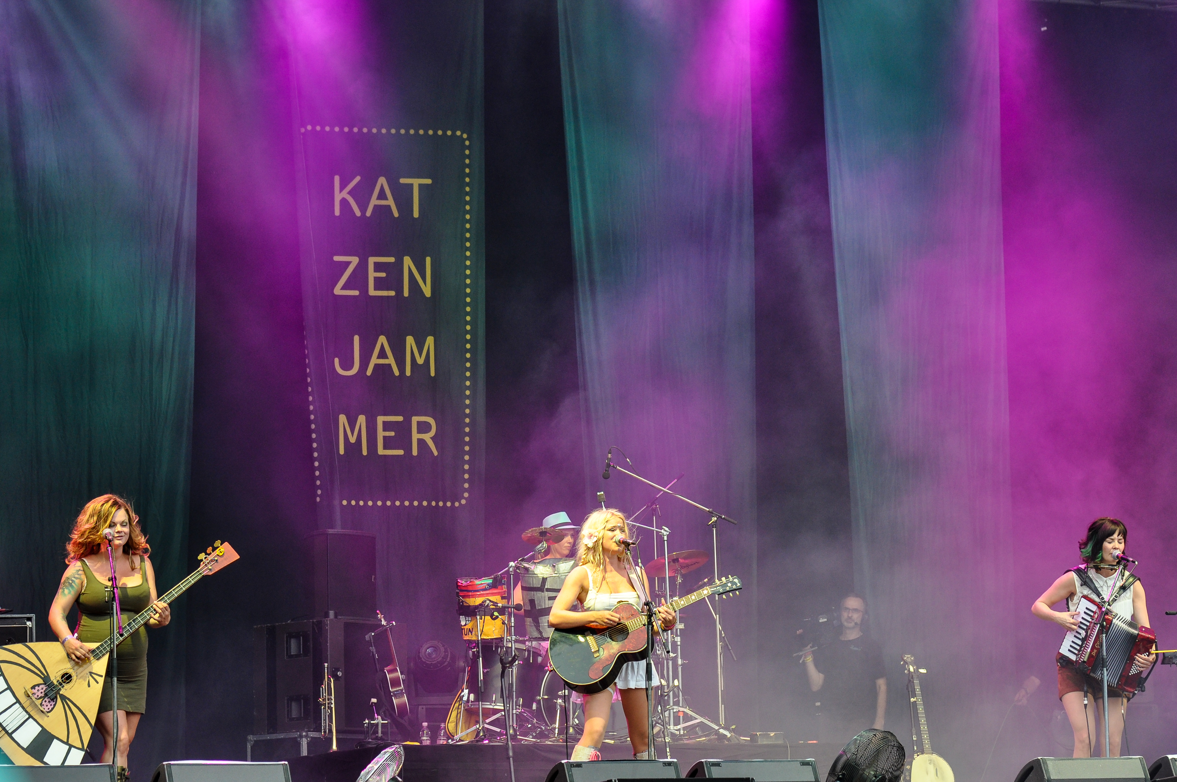 Katzenjammer performing at Greenville Festival 2013